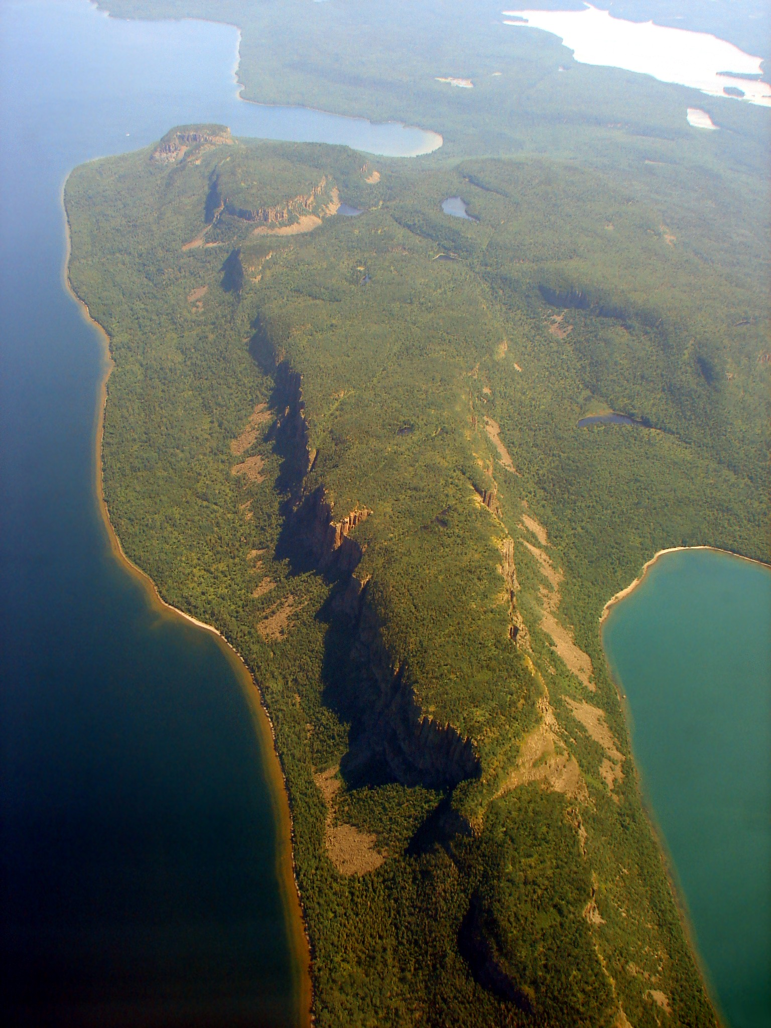 An aerial photograph of Sleeping Giant Provincial Park in Ontario, Canada.